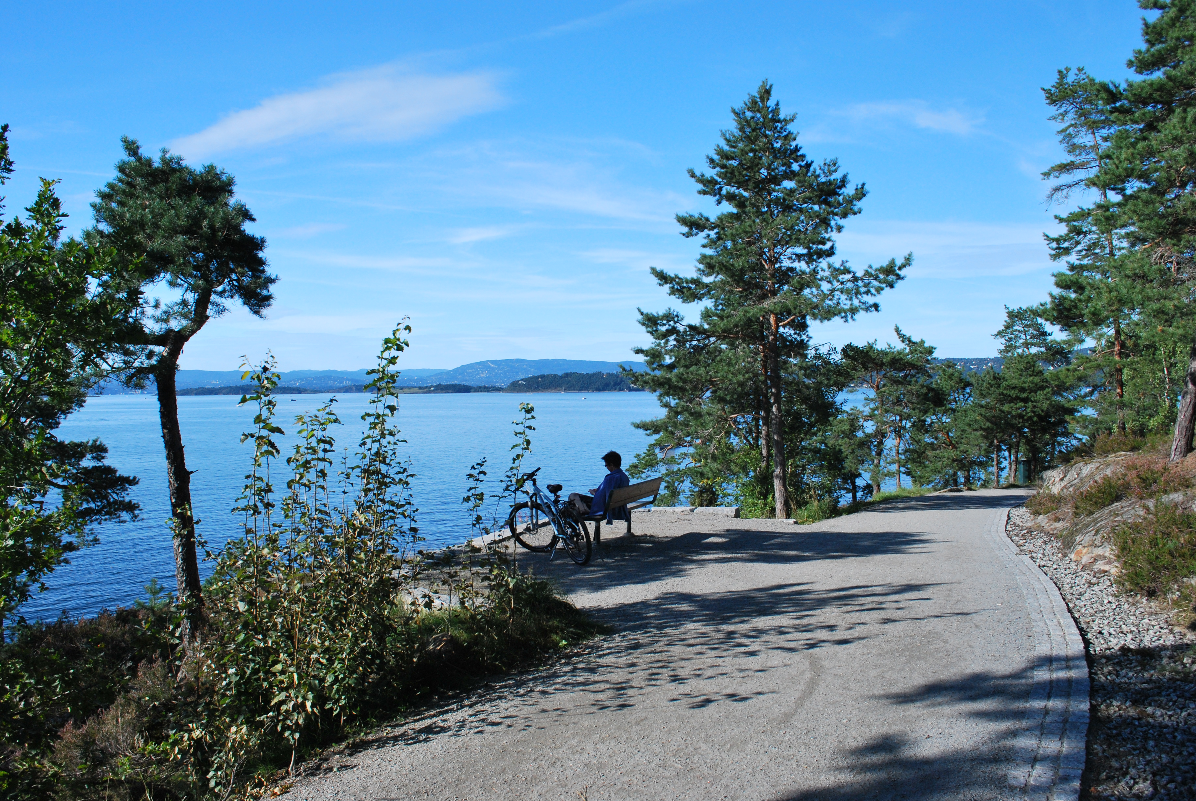 Ljanskollen, along the fjord south east of Oslo, view towards Oslo with the Holmenkollen Ski Jump in the middle of the picture